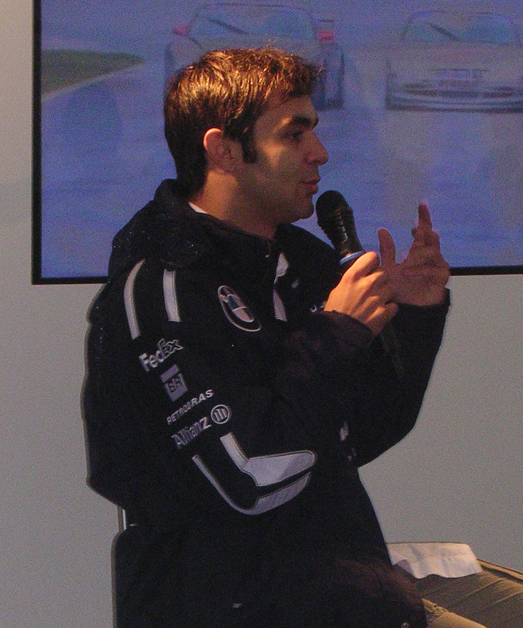 The Autrodomo Nazionale of Monza (italy) during a race in september 2004